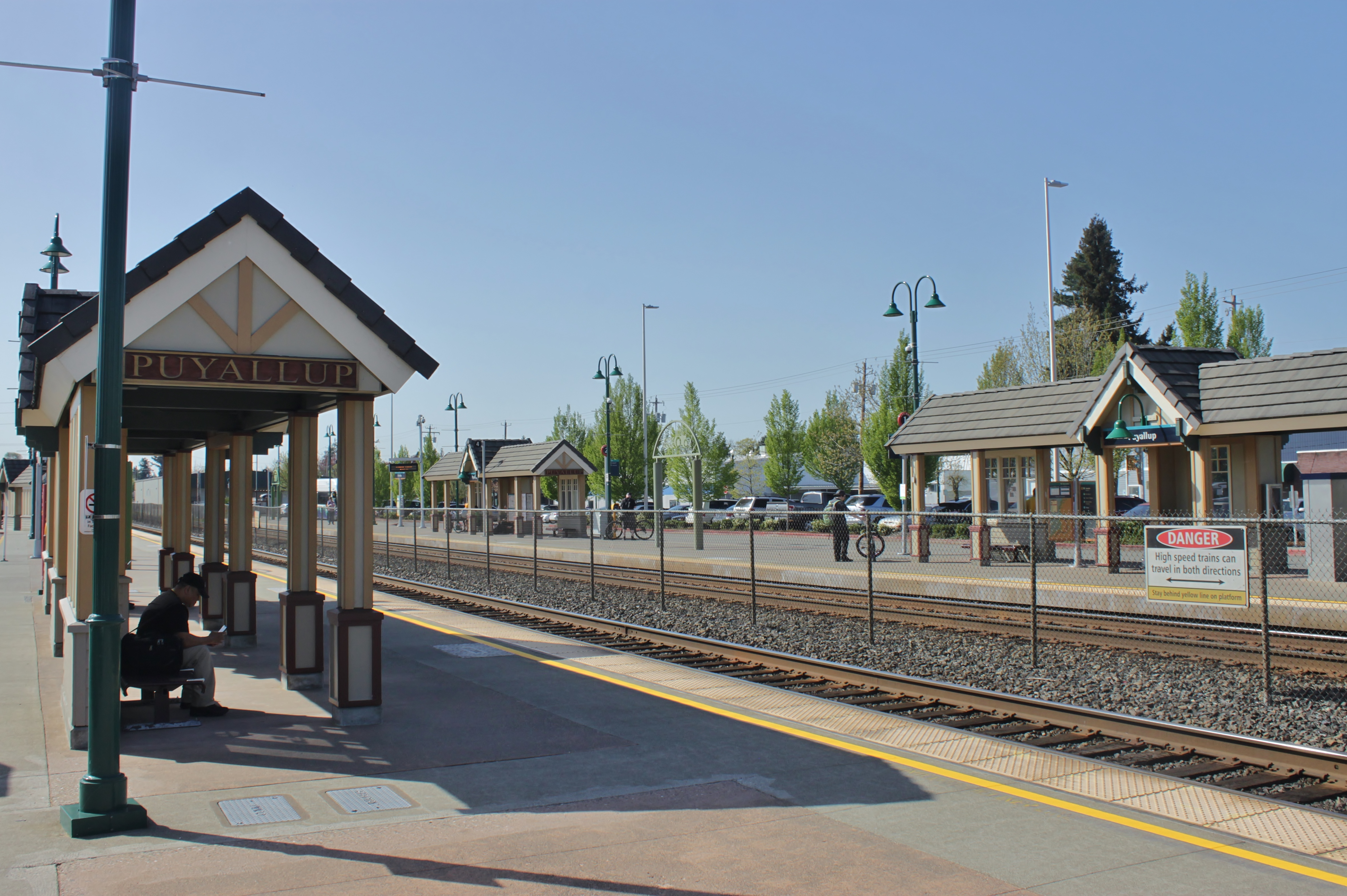 The platforms and shelters at Puyallup station, a commuter rail station in Puyallup, Washington, US.